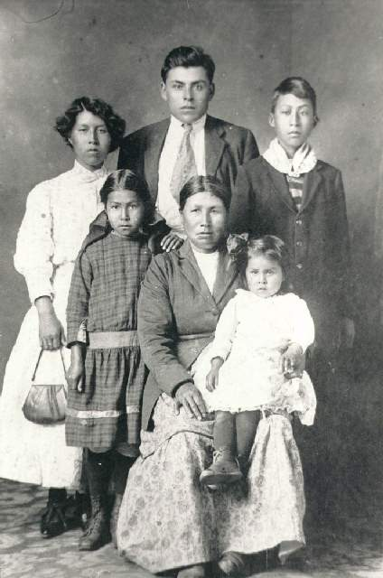 Okanagan/Syilx family portrait Top L-R: Marriette Abel (nee Gregoire), Joe Abel, and Tommy Gregoire. Lower L-R: Celestine Louis (nee Gregoire). Seated L-R: Millie Williams, and Mary Abel. Vernon, British Columbia